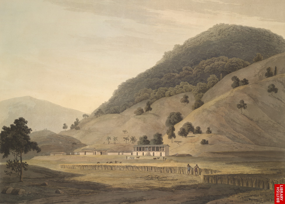 Village Jogiana, near Dogadda, Kotdwara, Uttarakhand, ca. 1784-94.